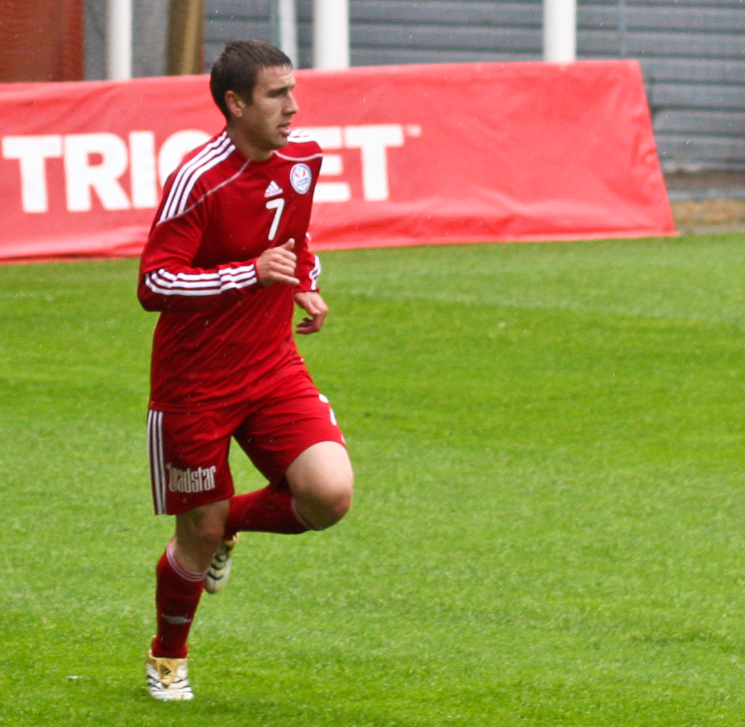 Aleksandrs Fertovs, Latvian football player